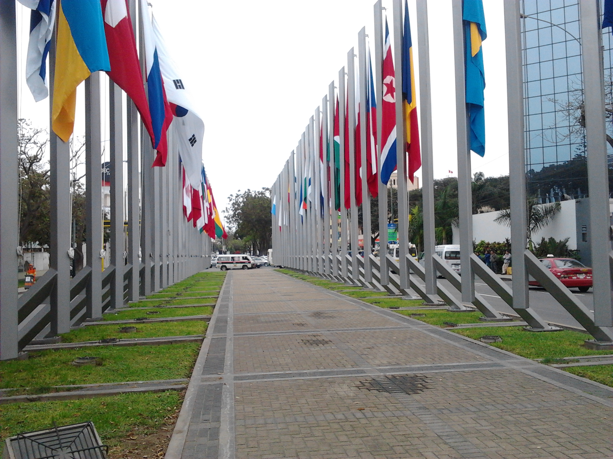 Forest of flags, Pershing Avenue Lima Peru.